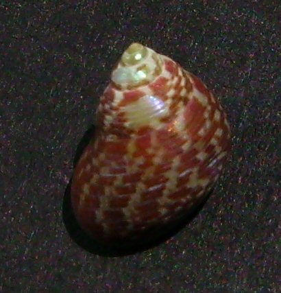 Cantharidus dilatatus (G.B. Sowerby II, 1870) (synonym: Micrelenchus dilatatus) (patterned) from Wenderholm, near Auckland, New Zealand.